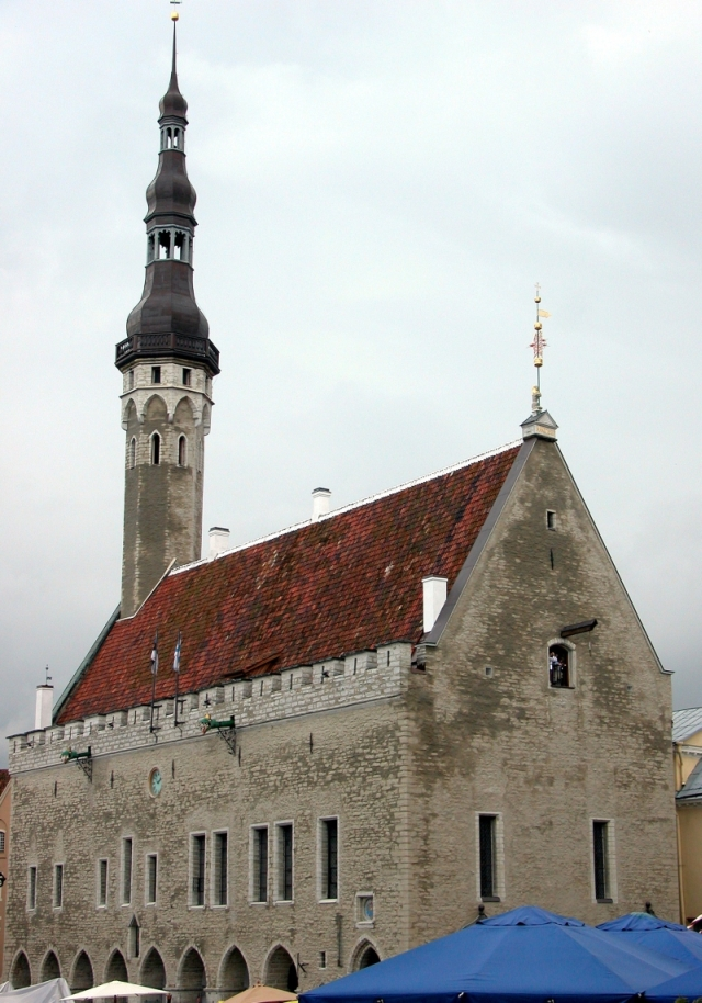 Tallinn, Estonia: Town hall.